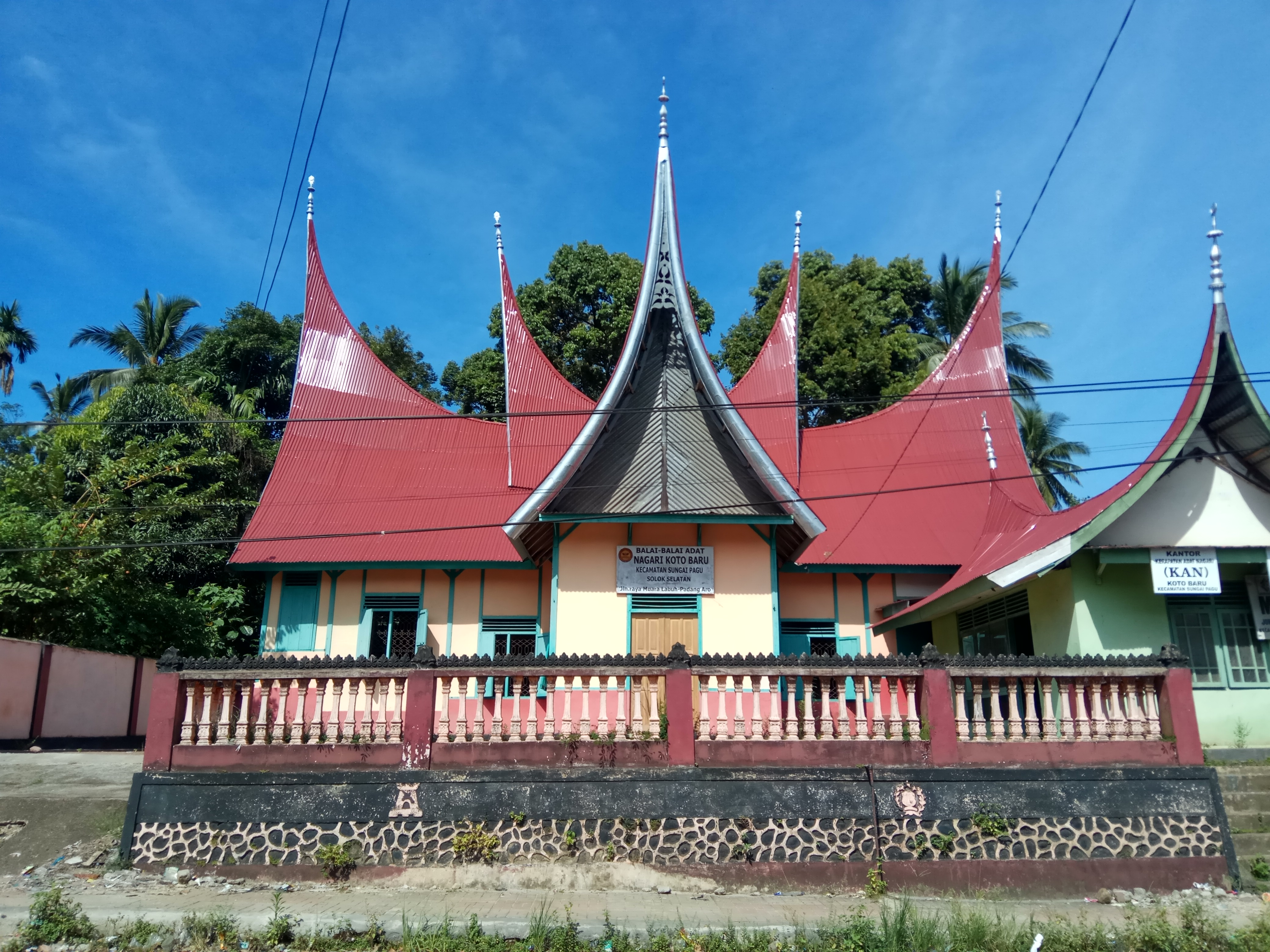 Kantor KAN Koto Baru